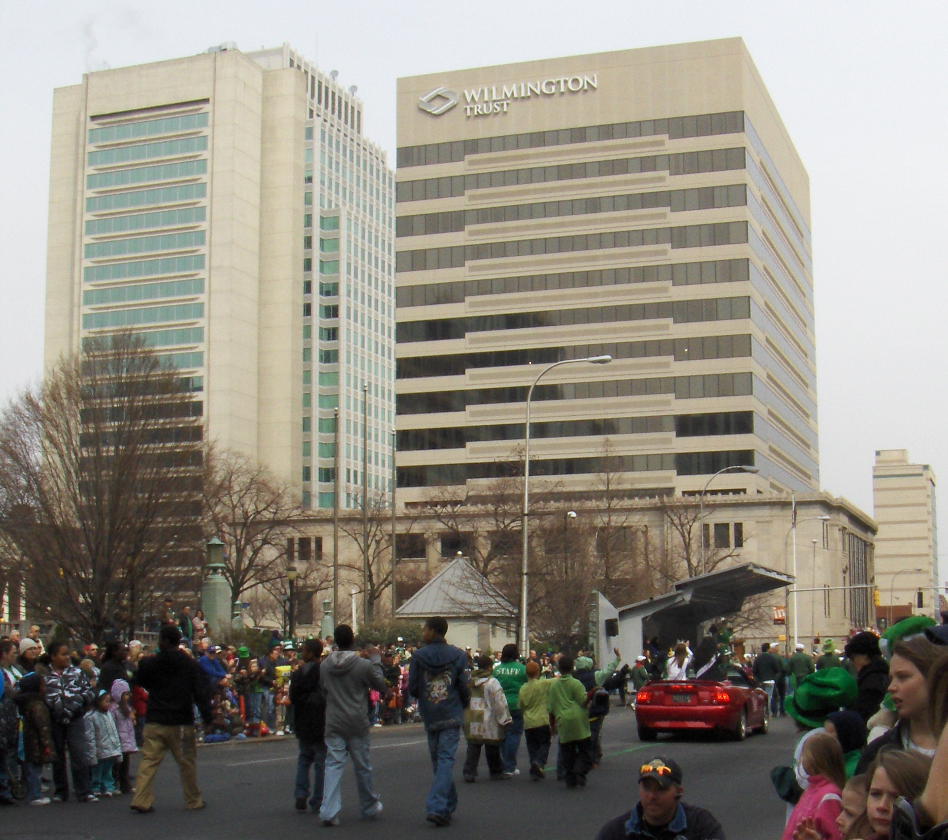 Wilmington Trust headquarters on Rodney Square in downtown Wilmington, Delaware. The detailed base of the building is the old U.S. Post Office, Courthouse, and Customhouse (on the National Registry Of Historic Places). The bank office tower is carved out of the center of that building (not behind it). The structure to the left is actually two buildings: The smooth one is the I.M. Pei building why the more detailed (art deco) structure is the 1201 N. Market St. Building(formerlly known as The Chase Manhattan Centre) owned by McConnell Johnson Real Estate, a block behind. The small building to the right is the Legal Arts building several blocks in the distance. The parade on King Street is the 2009 St. Patrick's day celebration.